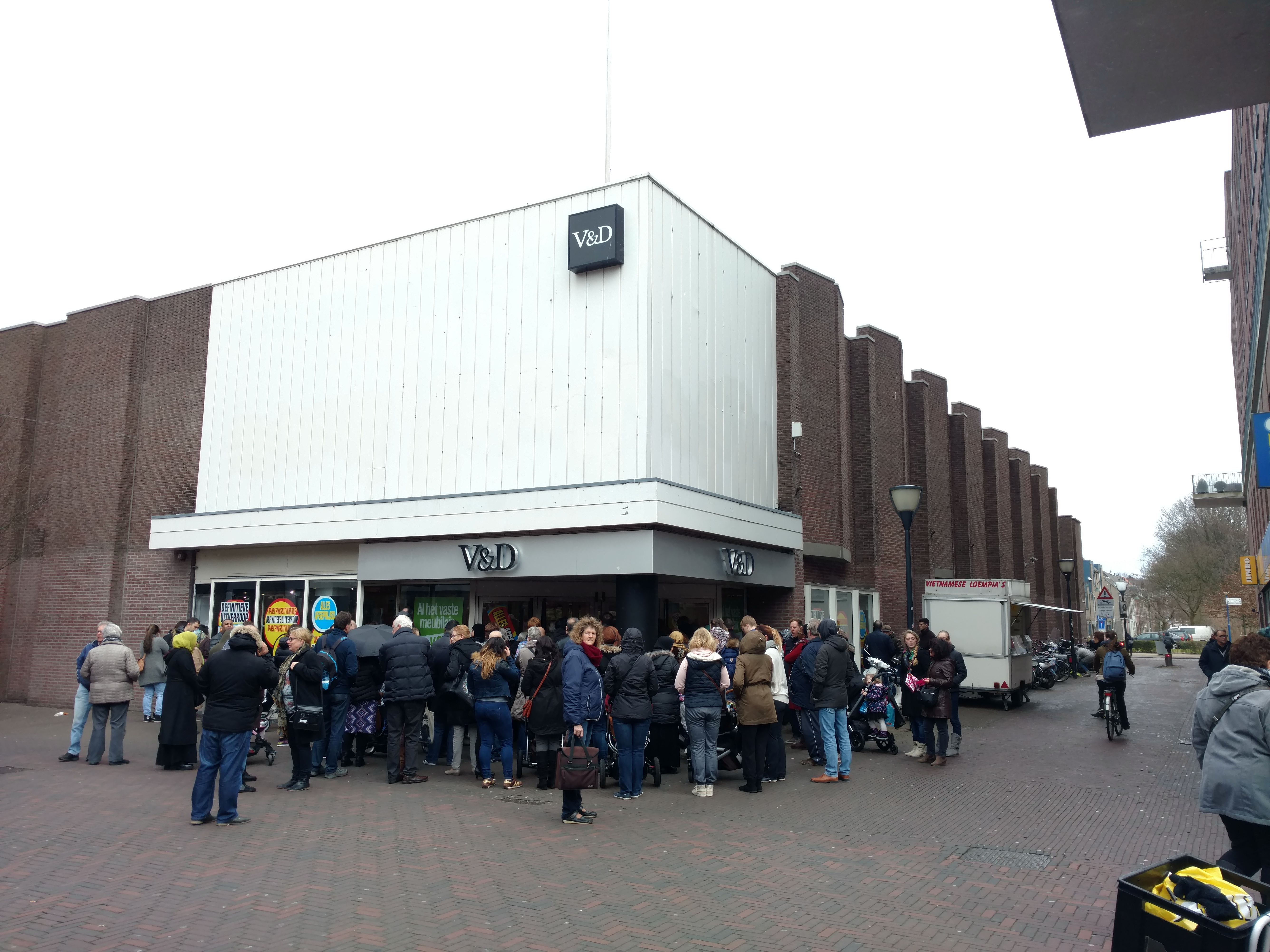 People waiting for the shop to open on V&D's final sale